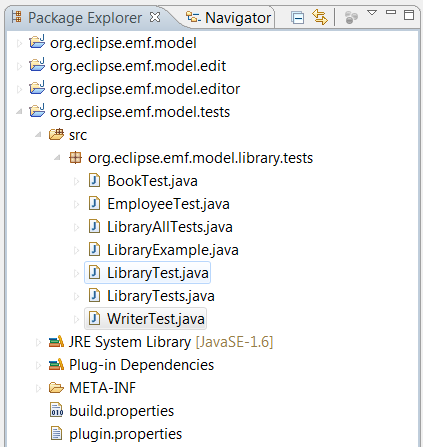 Screenshot of the code generated by the open source software EMF.